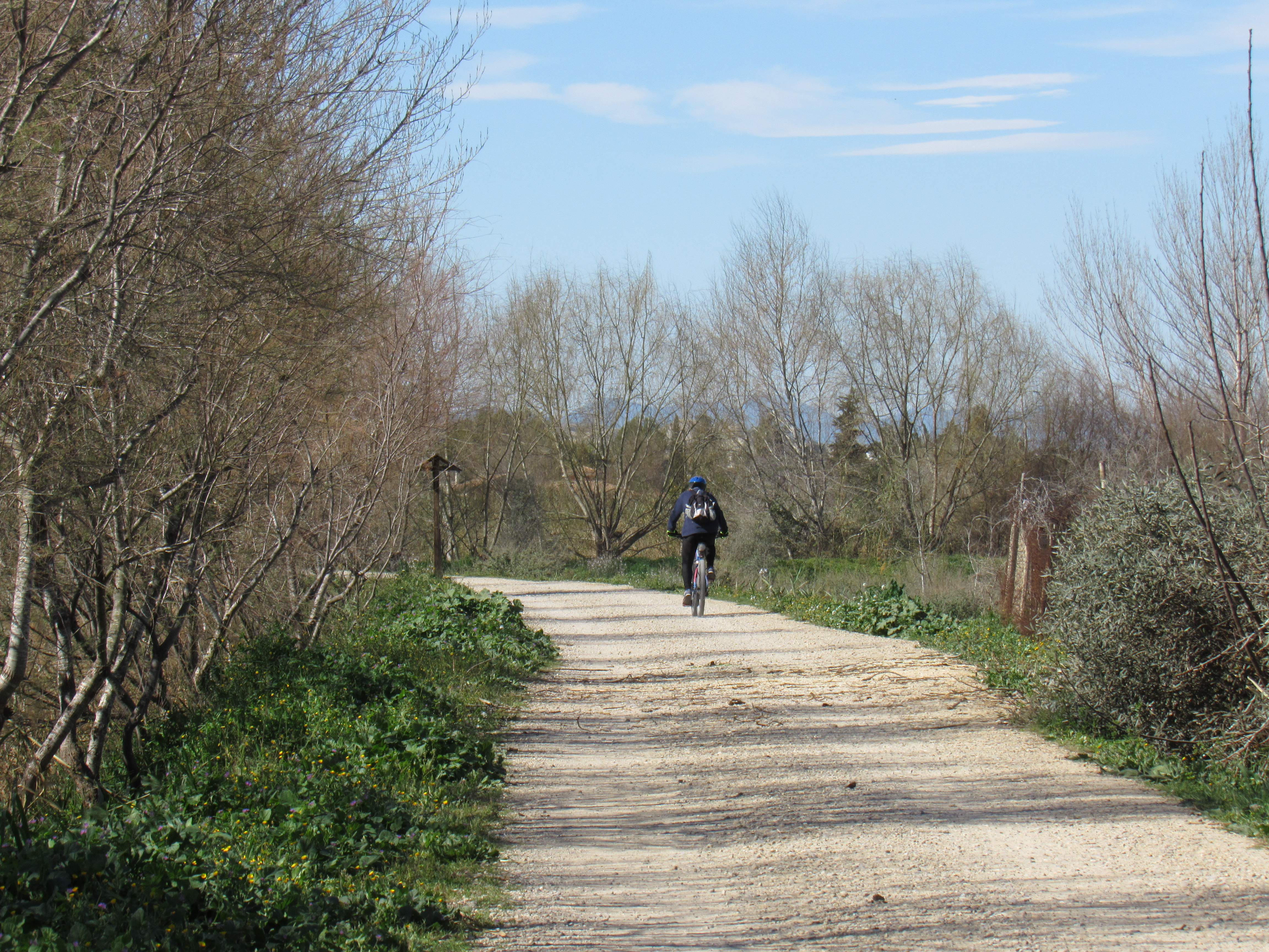 Soto de la Hijuela